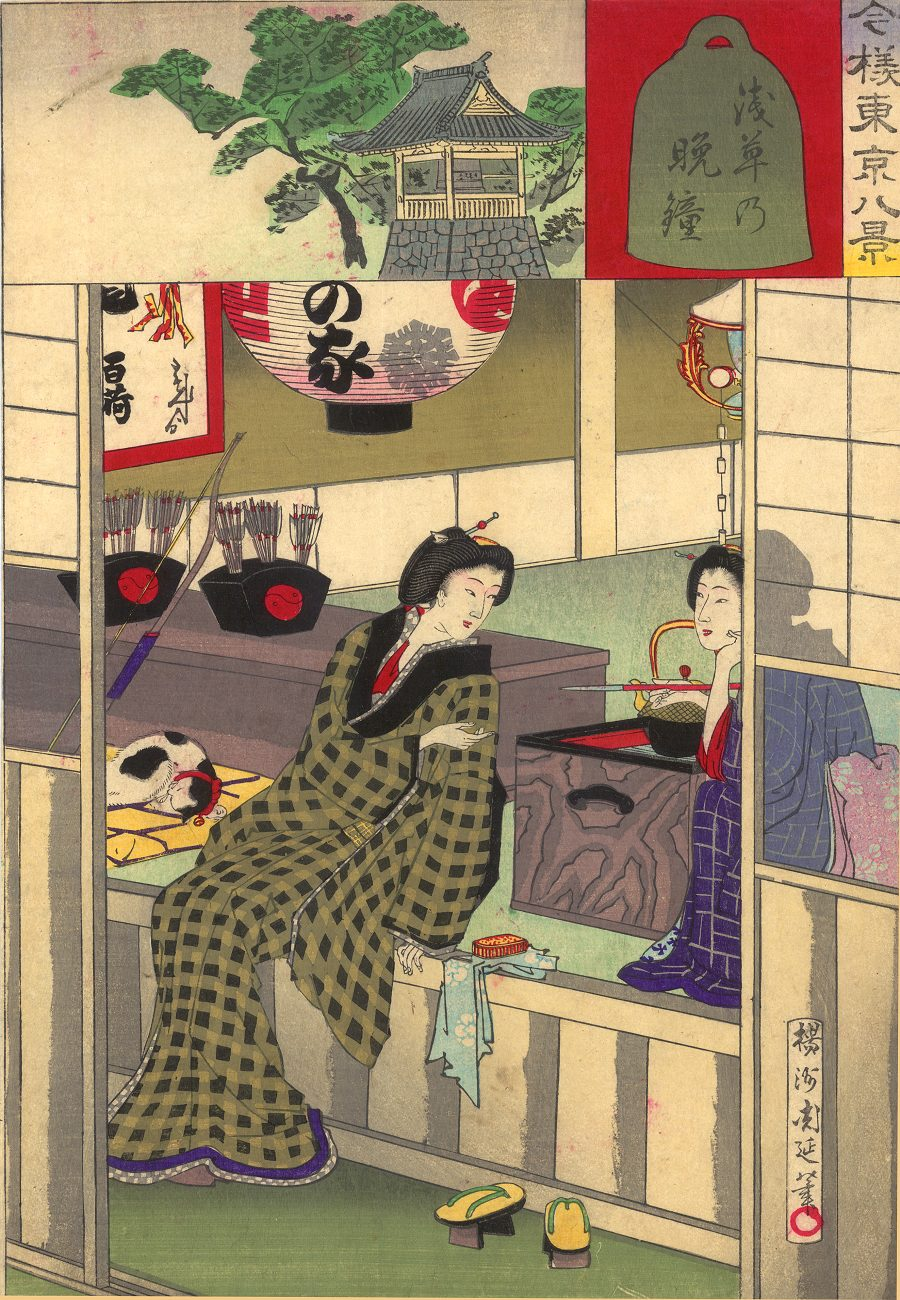 Two geishas relaxing after having entertained; the insets showing the curfew bell at Asakusa